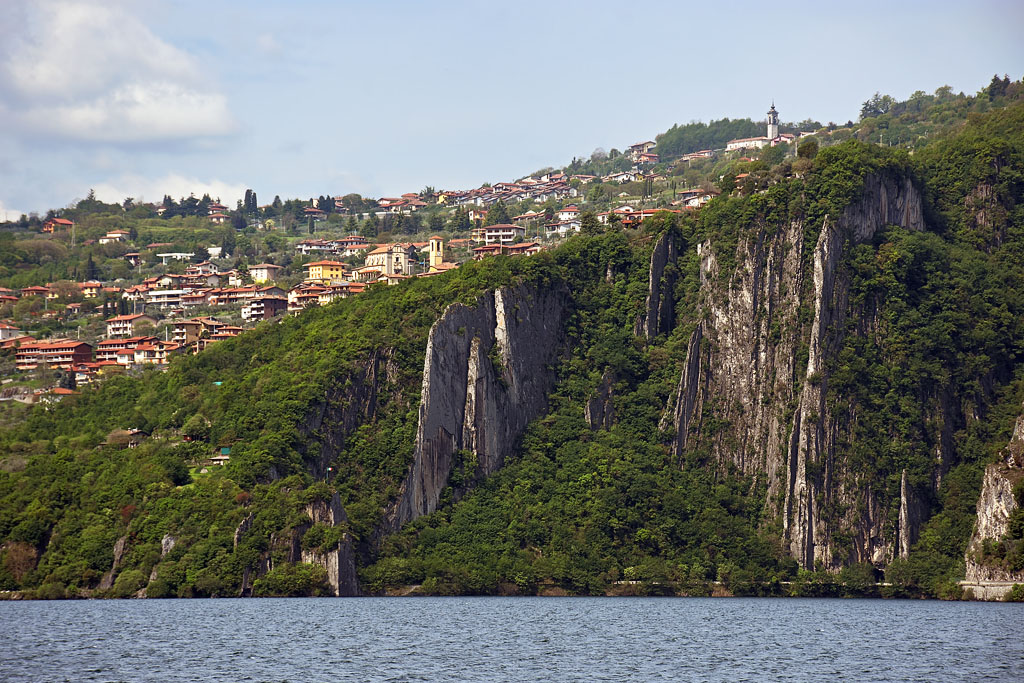 Zorzino and the rocks of Bogn, Riva di Solto